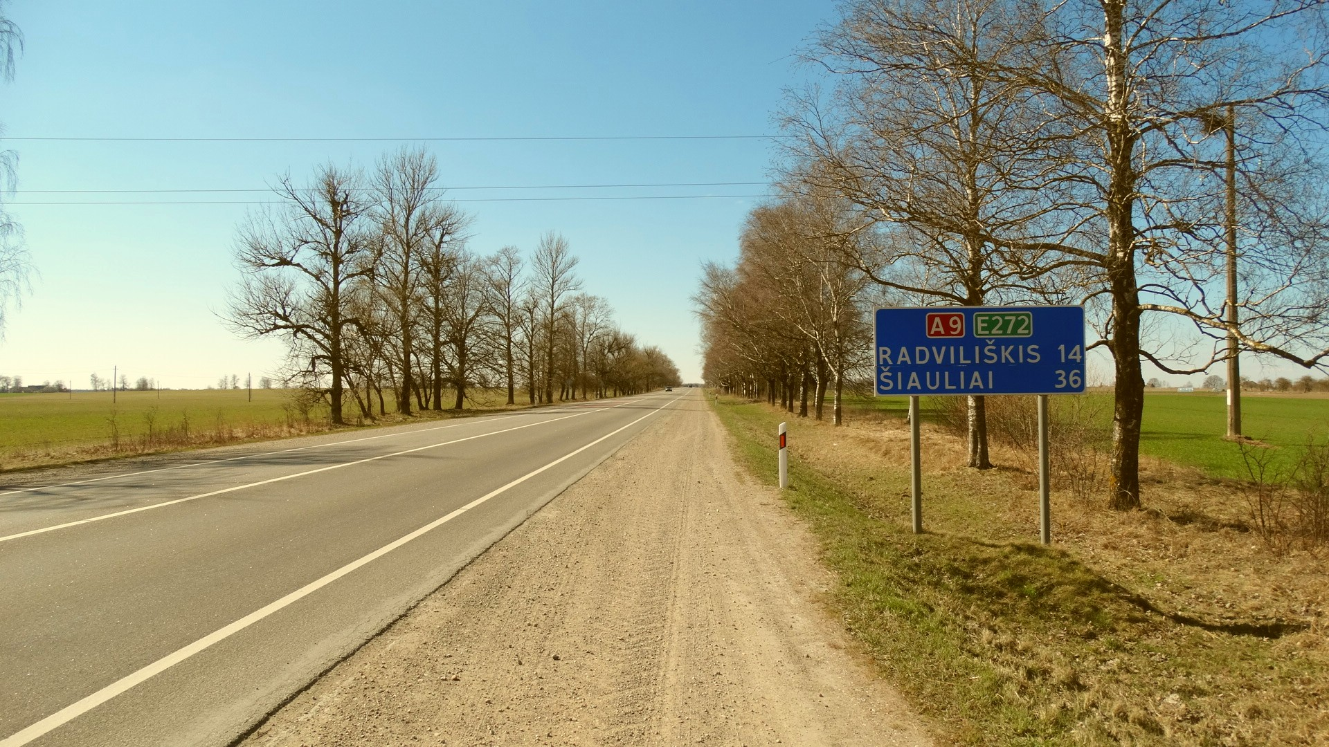 Road A9, Šeduva, Lithuania